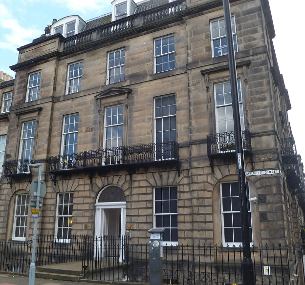 Axios Systems headquarters in Edinburgh, Scotland. Axios Systems are service management providers with offices around the world.